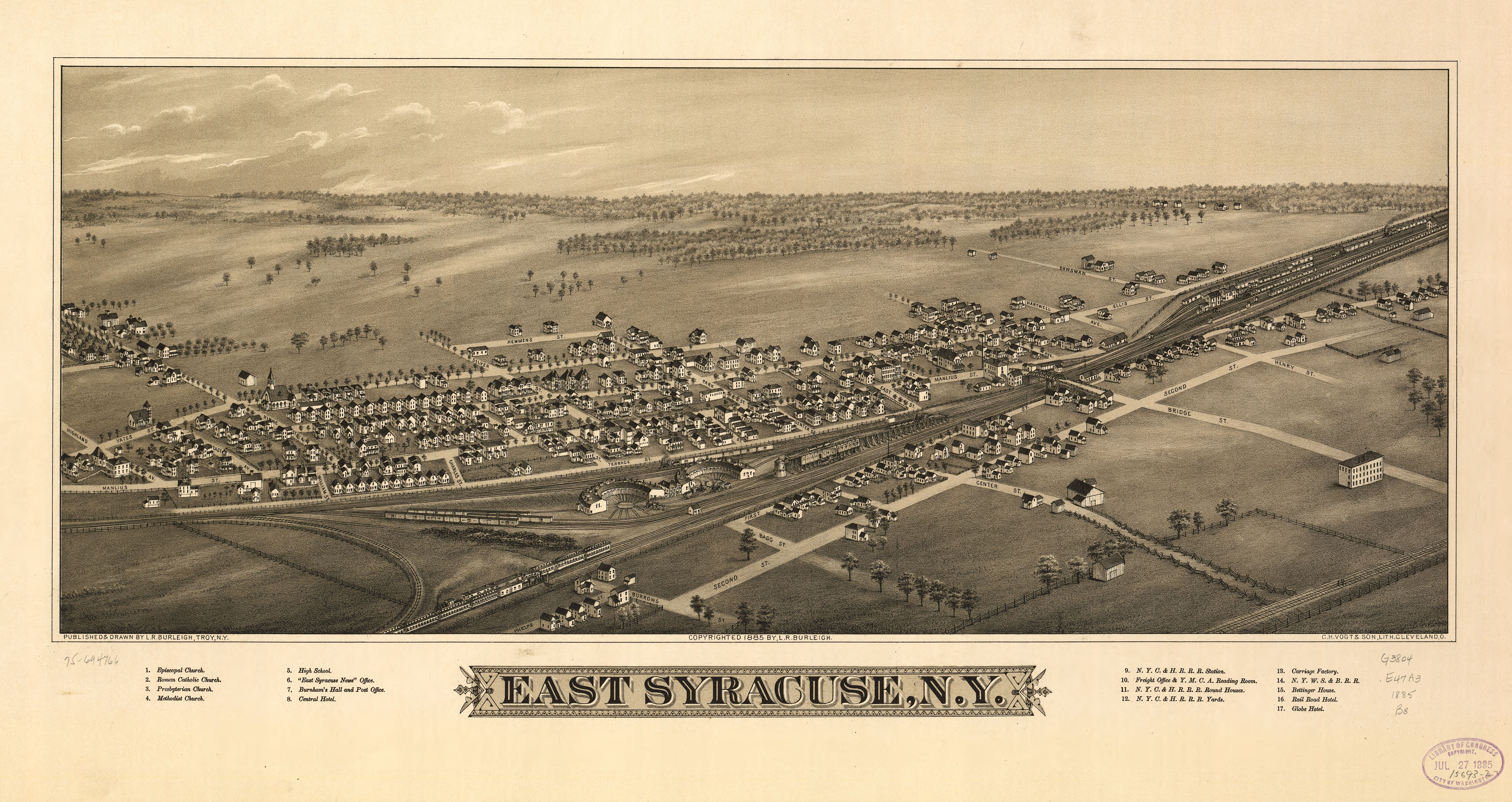 Perspective map not drawn to scale. Bird's-eye-view. LC Panoramic maps (2nd ed.), 557 Available also through the Library of Congress Web site as a raster image. Indexed for points of interest. AACR2